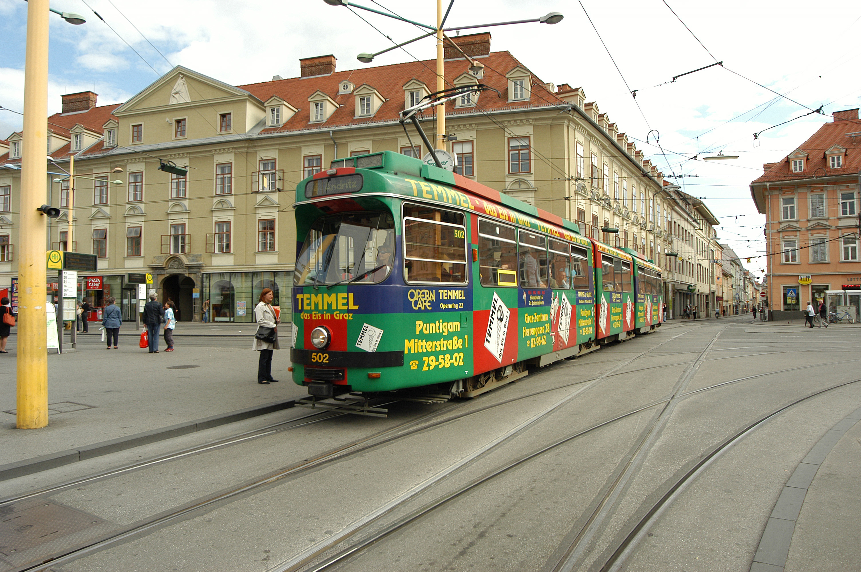 Please report references to kulacgmx.at.